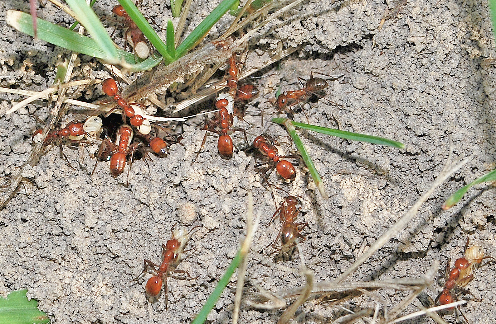 Polyergus lucidus, the most abundant species of the genus in eastern North America, returning from a raid on Formica incerta, the unique host species of this slave-maker ant. Two of the brownish F. incerta host workers are visible to the right of the nest entrance.